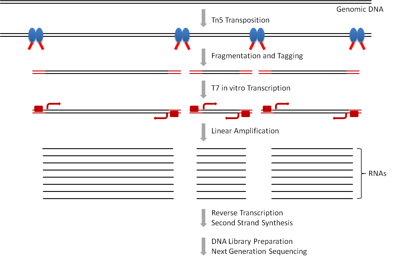 General scheme of LIANTI